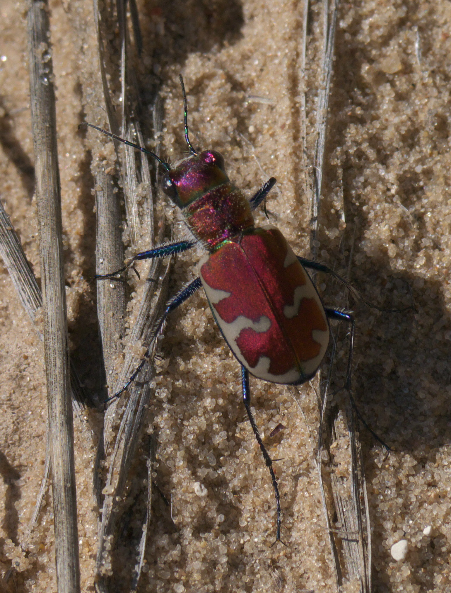 Cicindela formosa, Big Sand Tiger Beetle, ID Confidence: 98